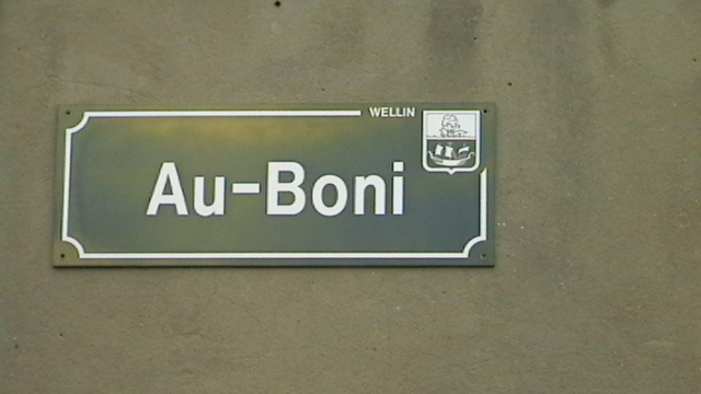 Official street name using a Walloon name. Walon: Å Bounî a Welin (portrait saetchî pa L. Mahin).